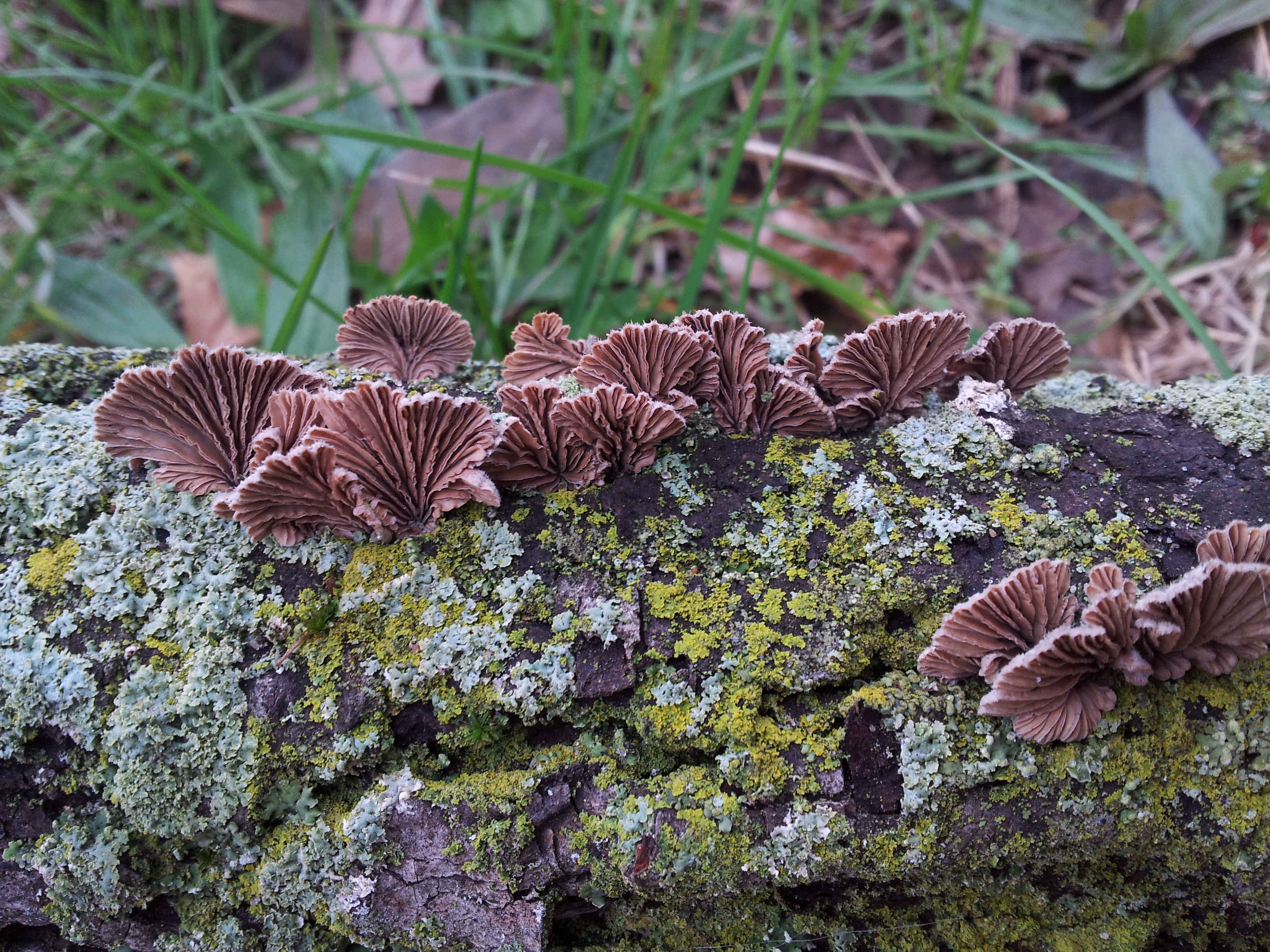 A shot of the under side of a fruiting of split-gill (Schizophyllum commune)